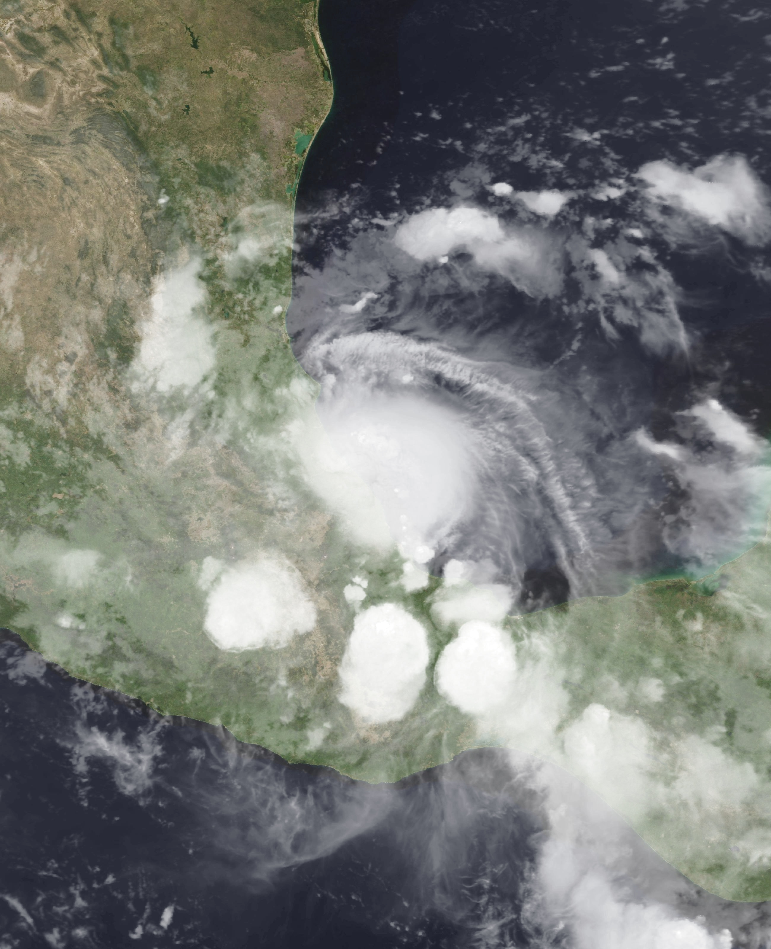 Hurricane Lorenzo shortly after peak intensity making landfall in Veracruz on September 28, 2007